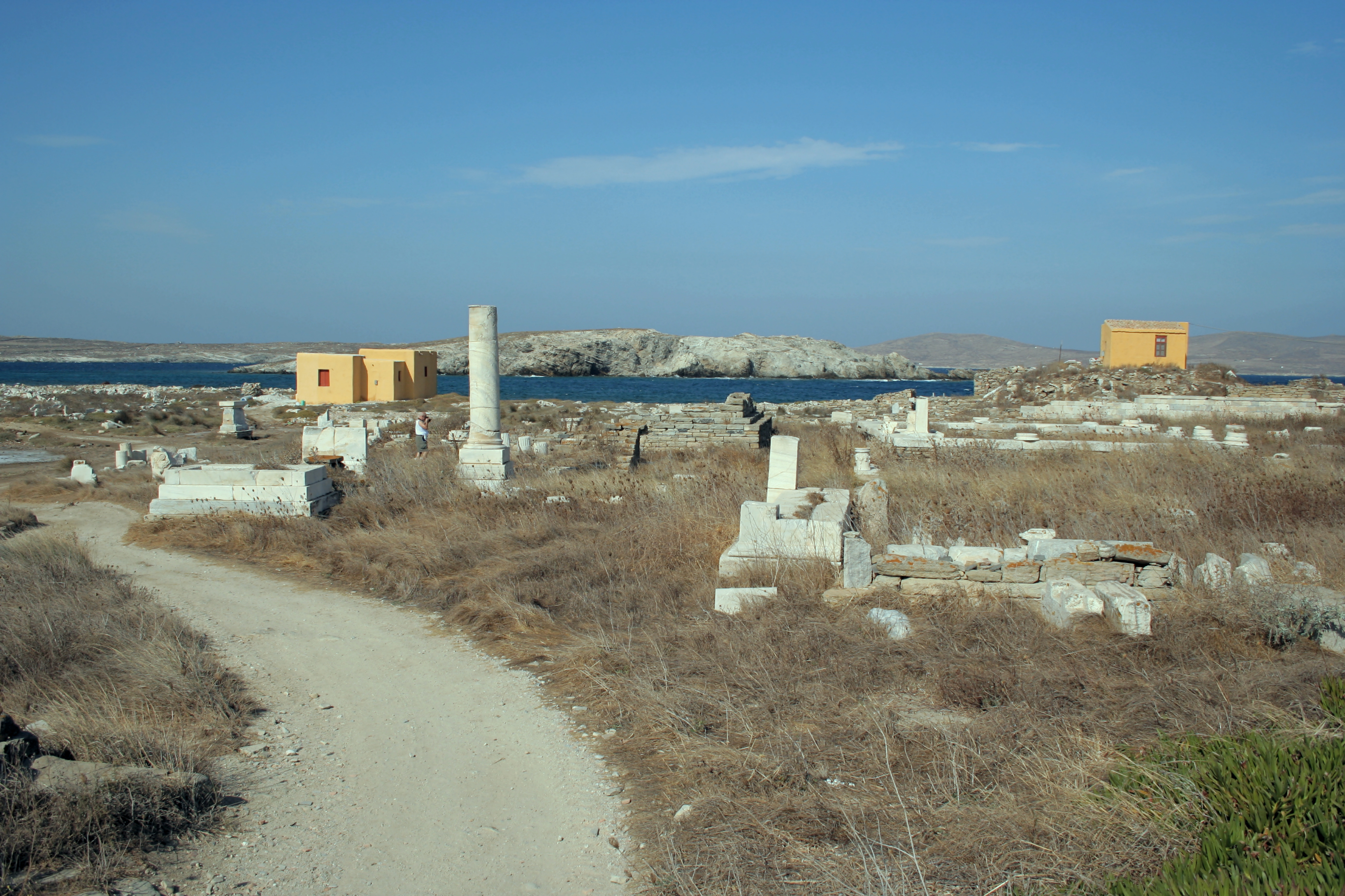 Surroundings of the Agora of Theophrastos, near Temle of Artemis. Agora of Theophrastos was in Roman times insensitively nestled between the Old Port and the sacred area.